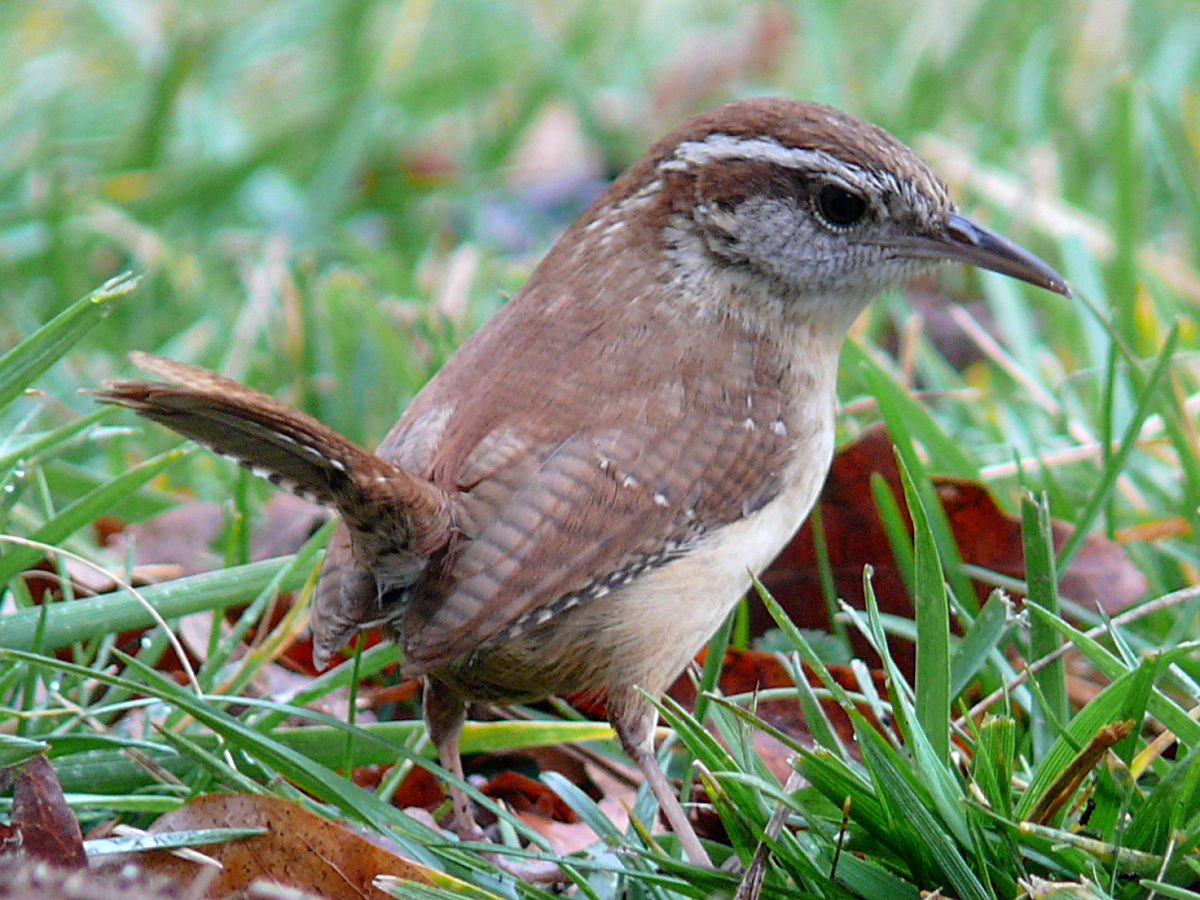 A Carolina Wren (Thryothorus ludovicianus) searching for food in the tall grass. Photo taken with a Panasonic Lumix DMC-FZ50 in Caldwell County, North Carolina, USA.